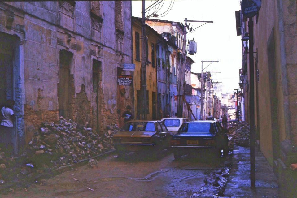 Slum area in Salvador's historic centre (Bahia)